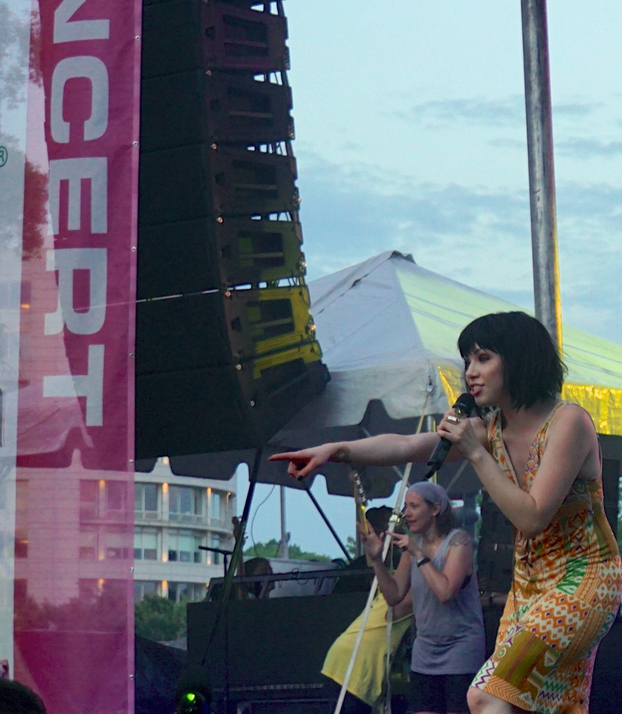 Featuring Carly Rae Jepsen and Wilson Phillips Kaiser Permanente is a Gold Sponsor of Capital Pride and a Platinum Sponsor of Capital TransPride in our nation's capital